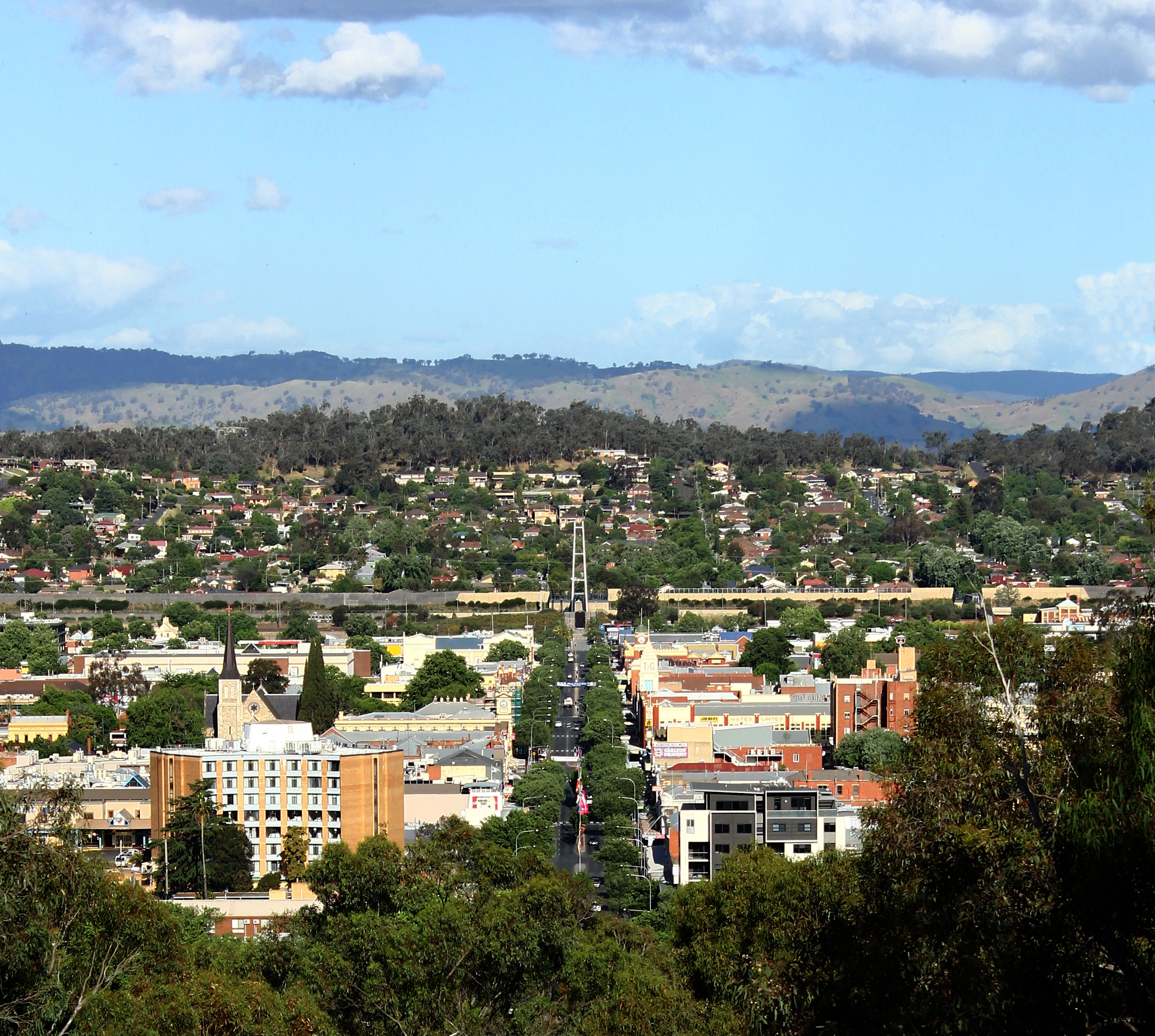 Albury NSW from the monument, Monument Hill.